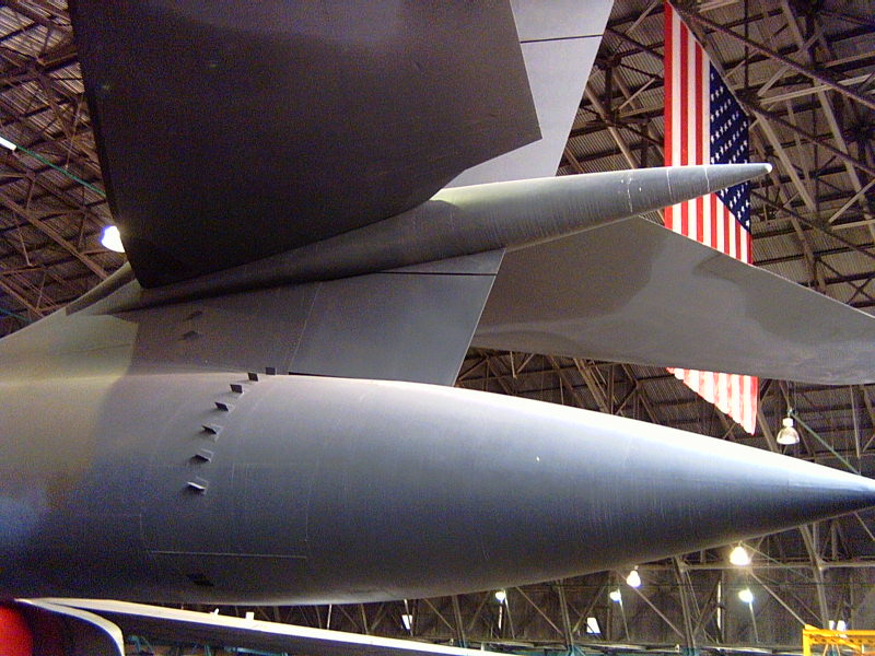 B-1A Lancer at Wings Over the Rockies Museum, Denver CO, taken by Lance Barber, July 2007, volunteer Curator of Military Aircraft. Photo of rear fuselage. Photo for public domain. Request the usual "Courtesy of" line for use outside of Wikipedia. Thank you.